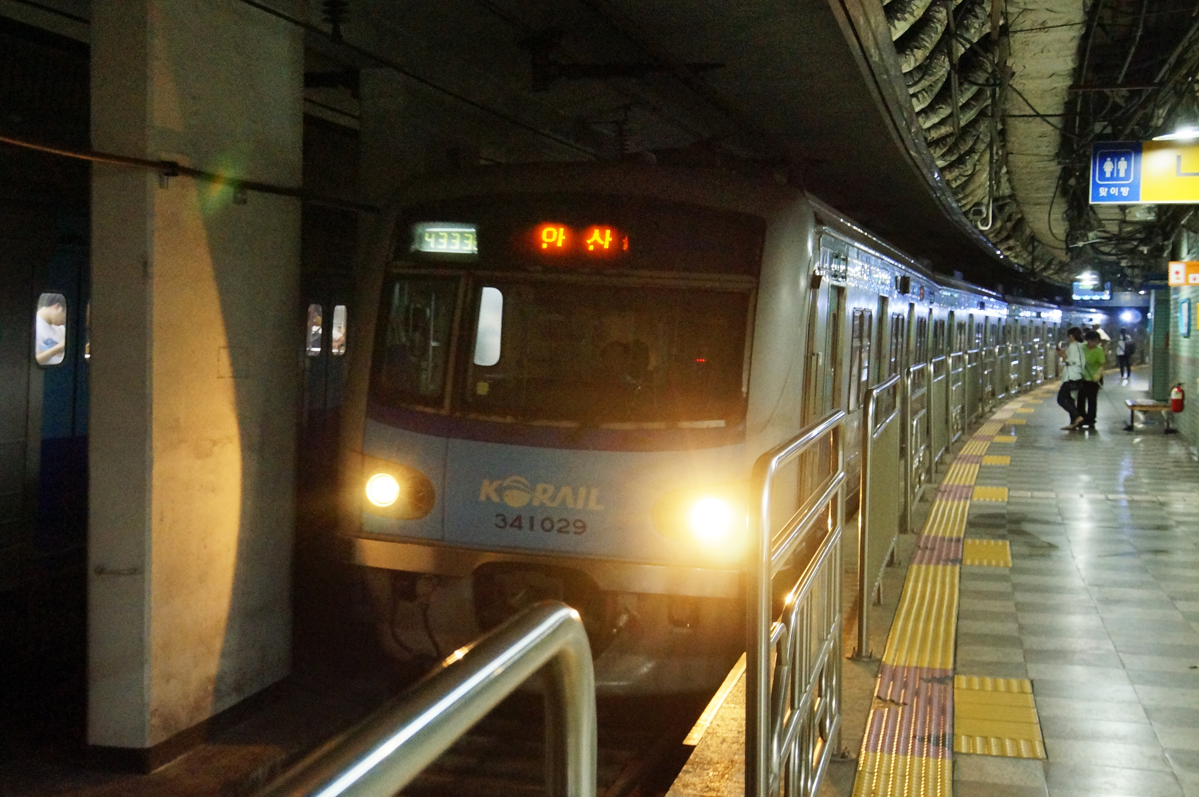 Ansan-bound Korail Line 4 train of Korail 341000-series cars (trainset 341x29) arriving at Gwacheon.